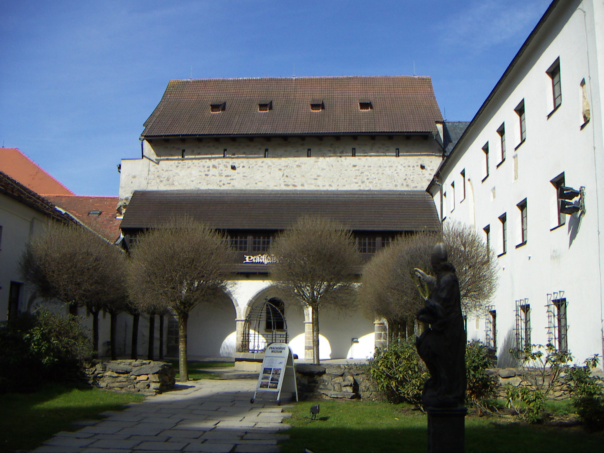 The courtyard of the castle and museum in Písek, Czech Republic